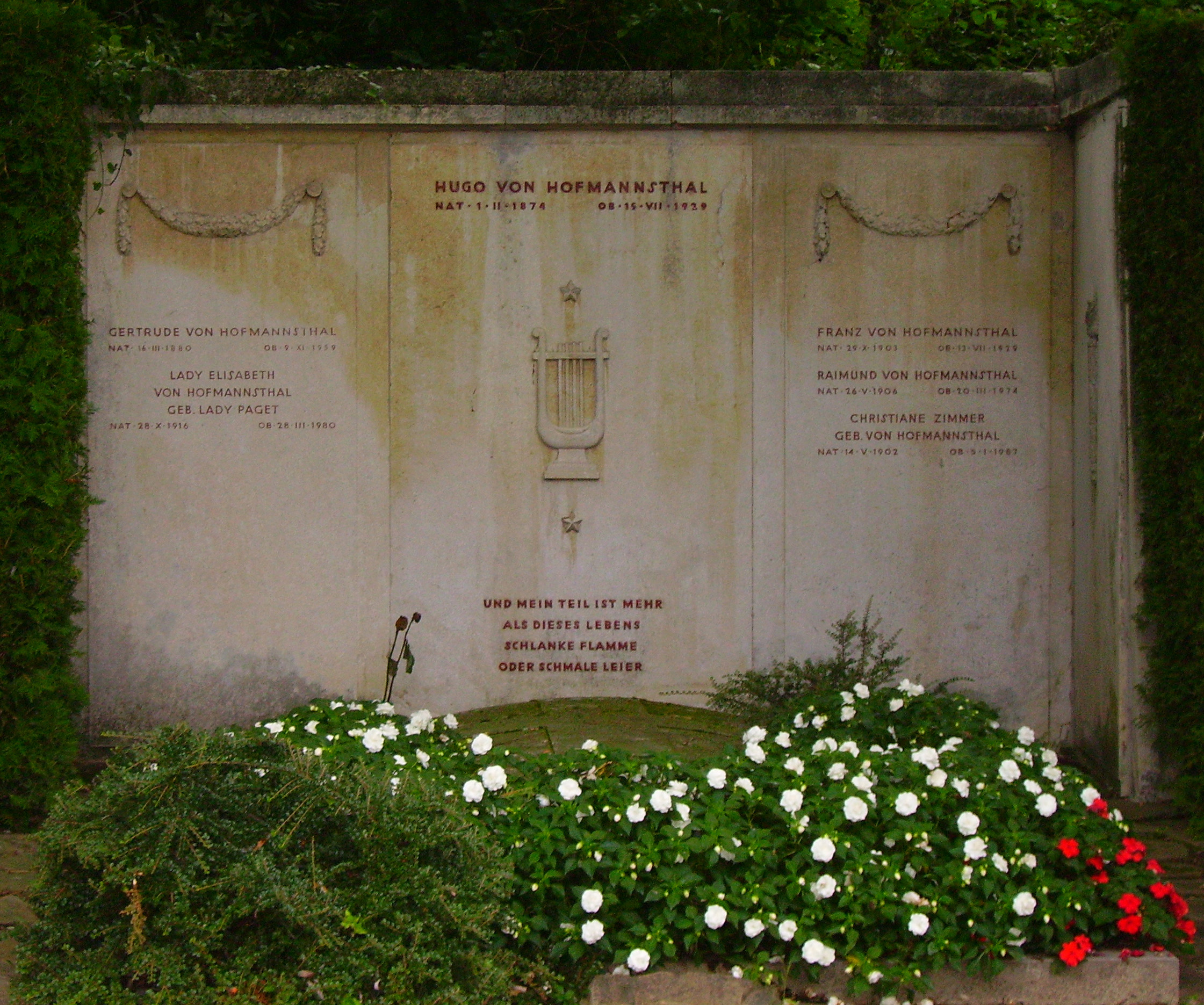 Grave of Hugo von Hofmannsthal (1874–1929), Kalksburg cemetery, Vienna The grave monument adorns an inscription with the final lines from his poem Manche freilich: AND MY PART IS MORE THAN THIS LIFE SLENDER FLAME OR NARROW LYRE.